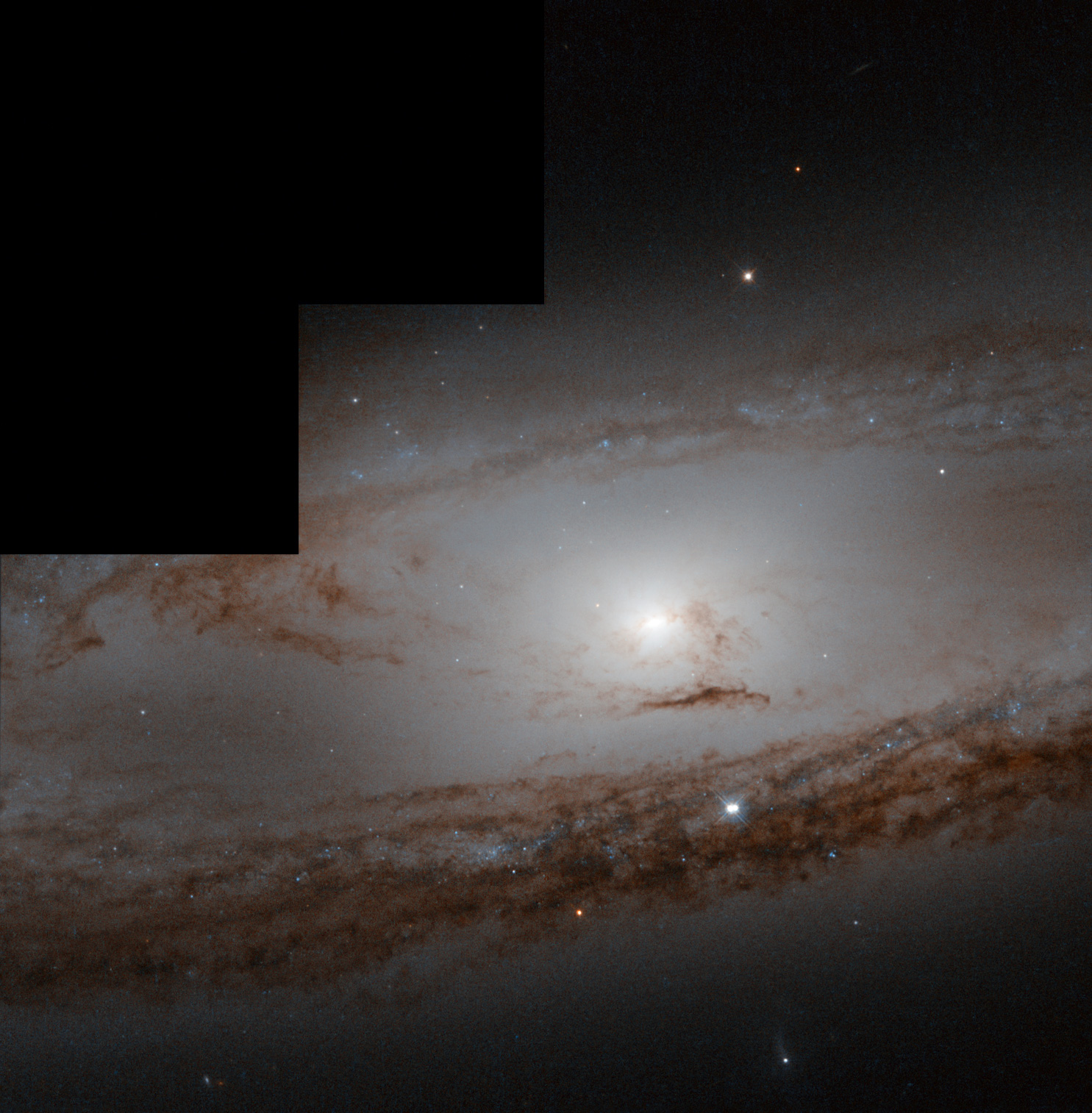 The 1st of March 1780 was a particularly productive night for Charles Messier. Combing the constellation of Leo for additions to his grand astronomical catalogue, he struck on not one, but two, new objects. One of those objects is seen here: Messier 65. "Nebula discovered in Leo: It is very faint and contains no star," he jotted down in his notebook. But he was wrong — as we now know, Messier 65 is a spiral galaxy containing billions upon billions of stars. All Messier saw was a faint diffuse light, nothing like the fine detail here, so we can forgive his mistake. If he had had access to a telescope like Hubble, he could have spied these stunning, tightly wound purple spiral arms and dark dust lanes, encircling a bright centre crammed with stars. Almost exactly 233 years later in March of this year, one of the stars within Messier 65 went supernova (not seen in this image), rivalling the rest of the entire galaxy in brightness. This, the first Messier supernova of 2013, is now fading, and the serene beauty of M65 is returning.